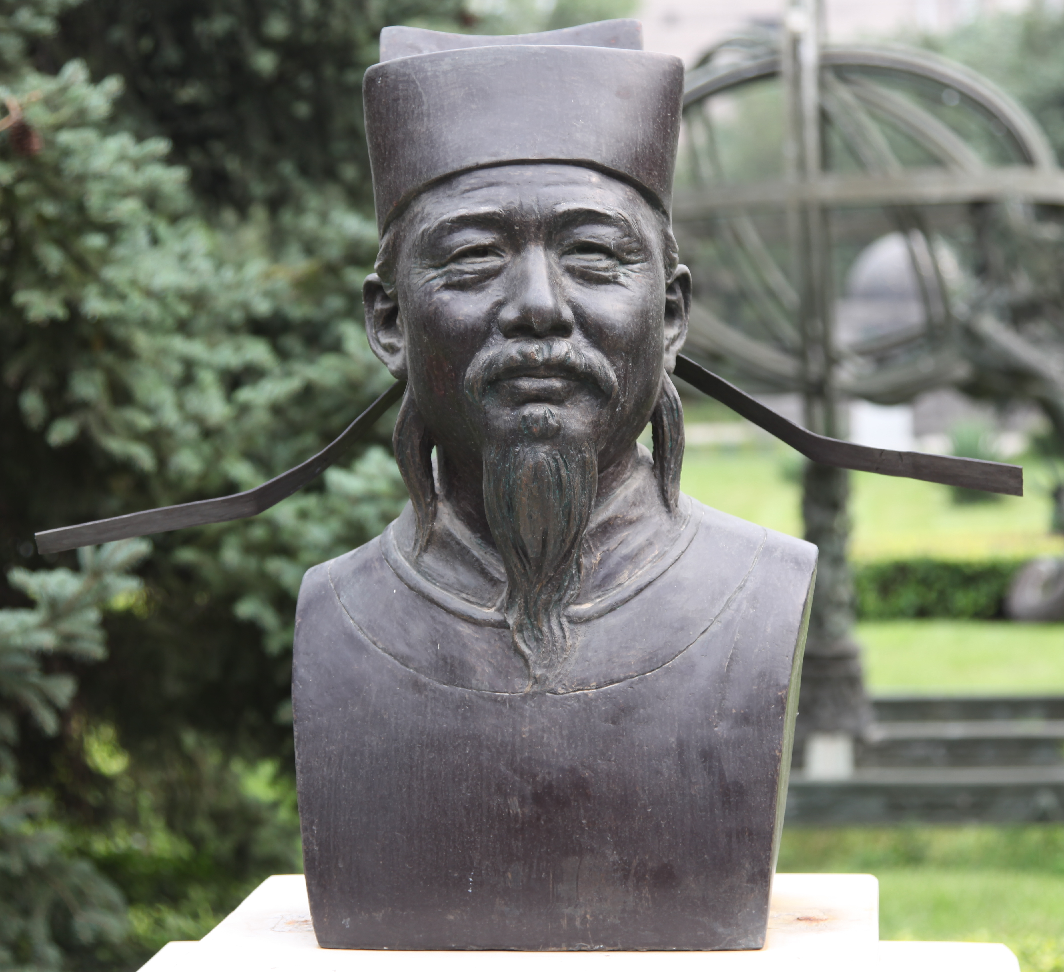 Exhibition description: Shen Kuo (1031-1095 AD) A prominent scientist and astrononmer of the Song Dynasty. Shen Kuo was the head official of the Bureau of Astronomy in the Song court, where he improved the design of several local astronomical instruments, including the amillary aphere, the gnomon and the clepsydra clock. He also formulated a solar calendar named the Twelve Solar Terms Calendar, which was used in agriculture. His work are summed up in his Dream Pool Essays, one of the greatest books of that time.